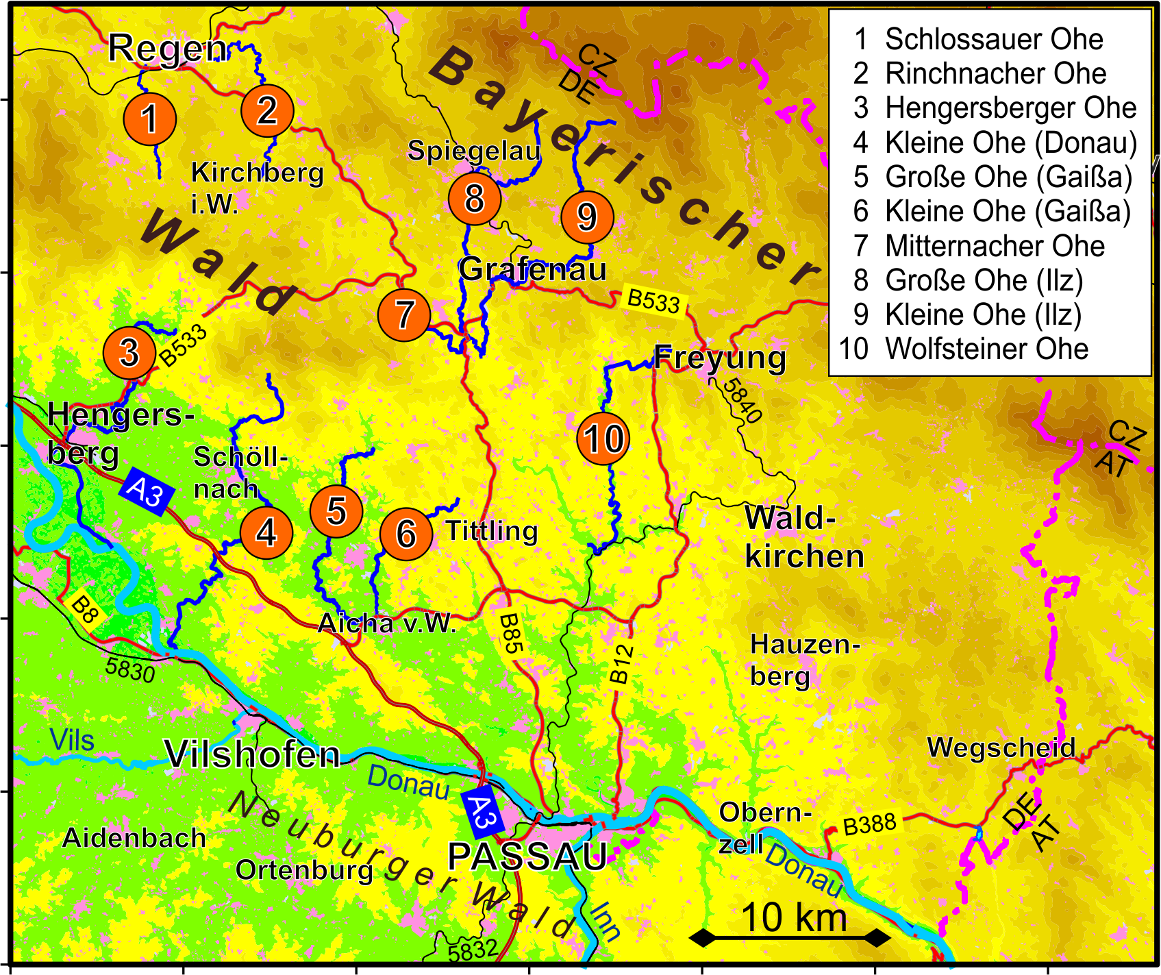 Cartographic overview of rivers named Ohe in the Bavarian Forest